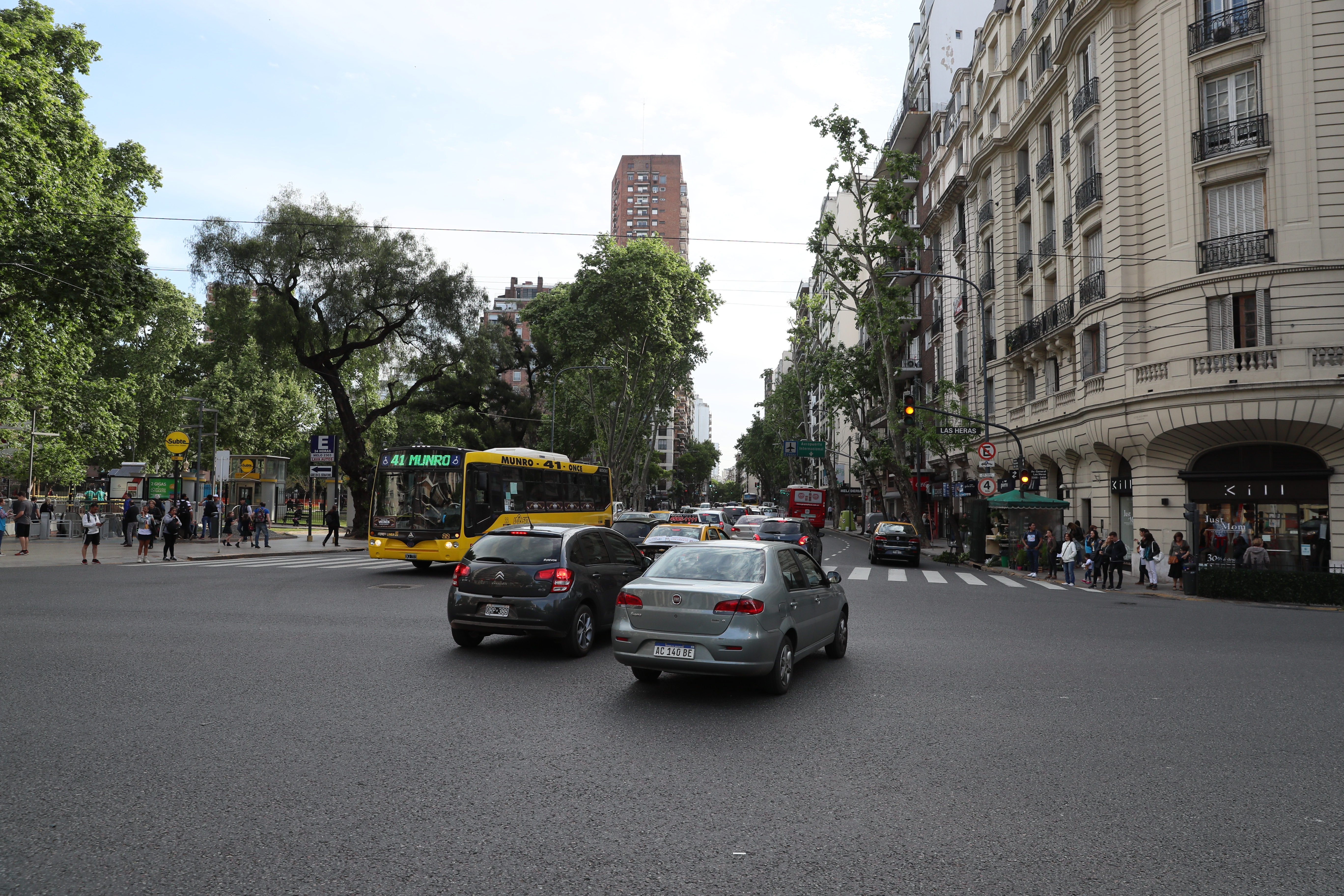 Sightseeing in Buenos Aires: Pueyrredón Avenue, from Las Heras Avenue intersection.Writer Jorge Luis Borges lived in the 1930s in a fifth floor apartment in the French building on the right (Acevedo, Becú & Moreno, 1927).